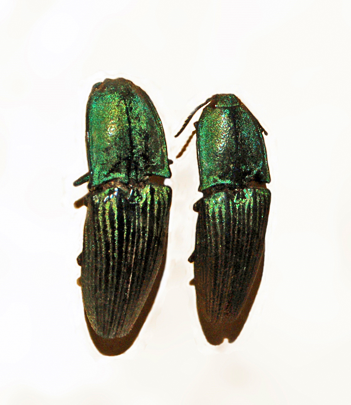 Chalcolepidius virens from Venezuela